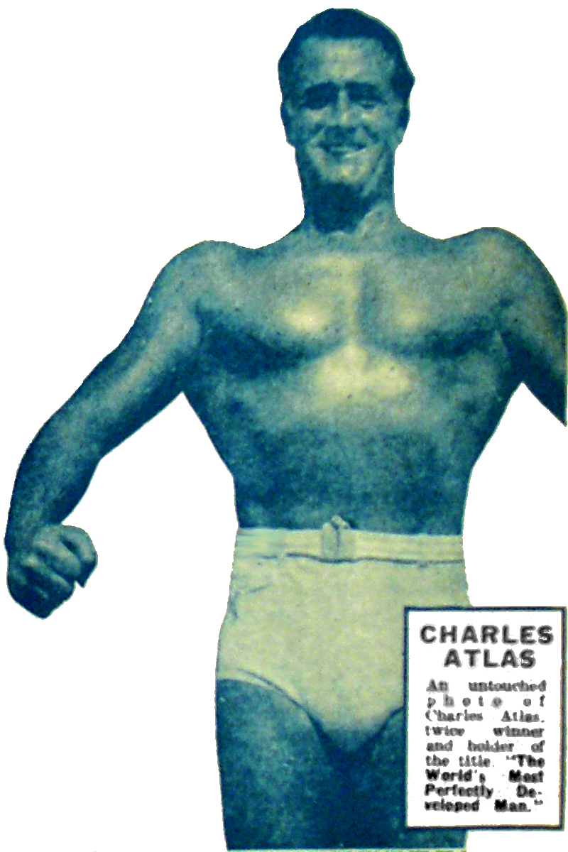 Advertisement for Charles Atlas' "Dynamic Tension" bodybuilding system. Advertisement from the pulp magazine Weird Tales (September 1941, vol. 36, no. 1).